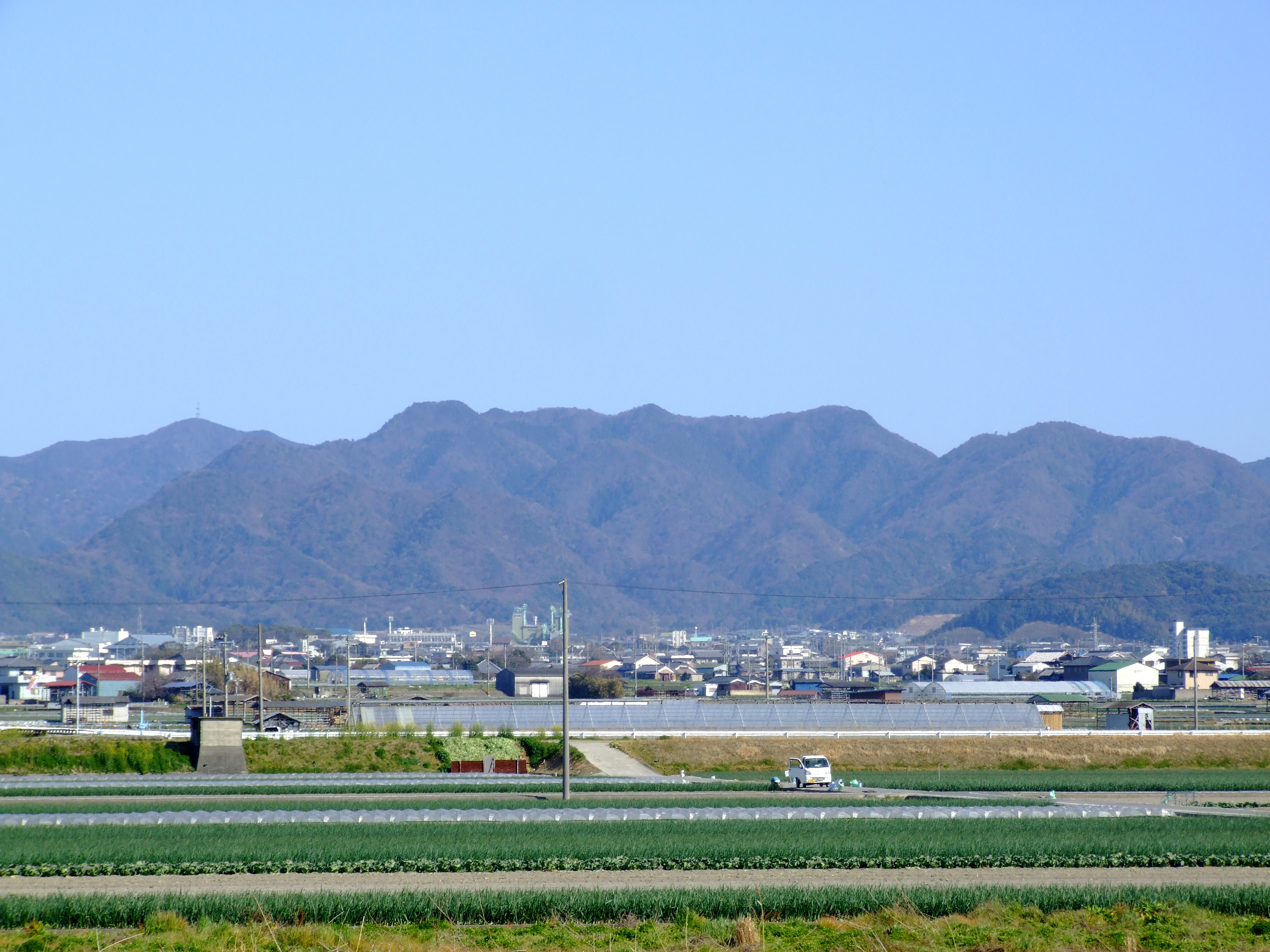 Mount Kabuto (Kabuto-yama) on the Awaji Island in Hyogo Prefecture, Japan